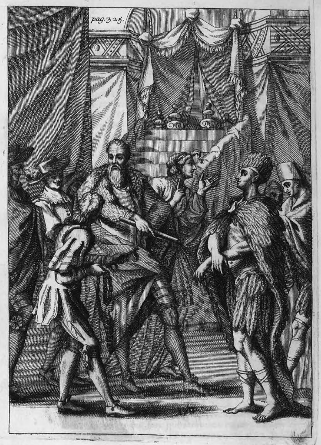 Moctezuma imprisoned by Cortés - Copper-plate engraving from Van Beecq